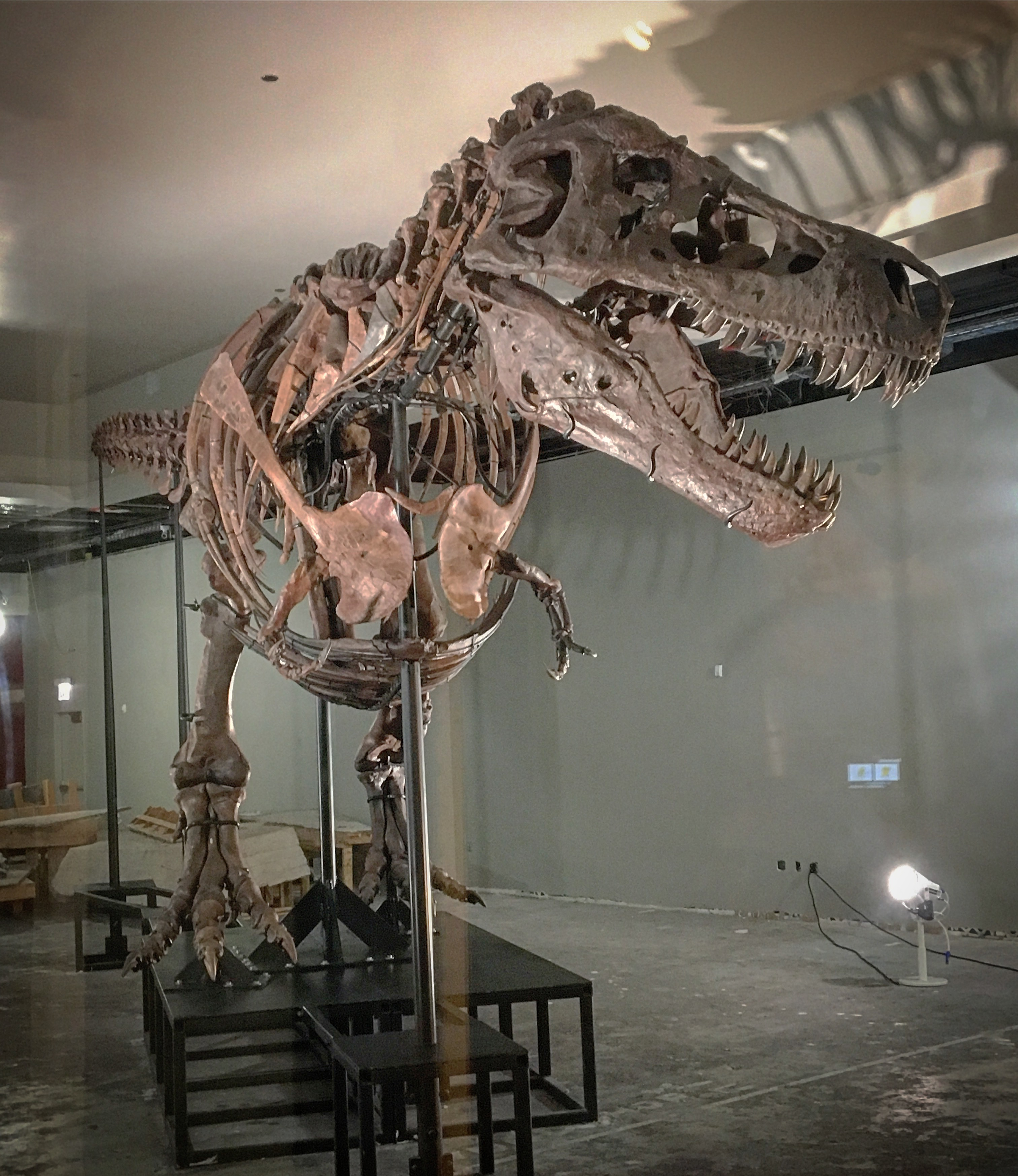 Tyrannosaurus Rex, "Sue", fossil skeleton on display at the Field Museum of Natural History in Chicago, IL. This photo reflects the 2018 move to a new gallery and the update of the mount to reflect newest scientific finding as well as adding the furcula and gastralia for the first time.